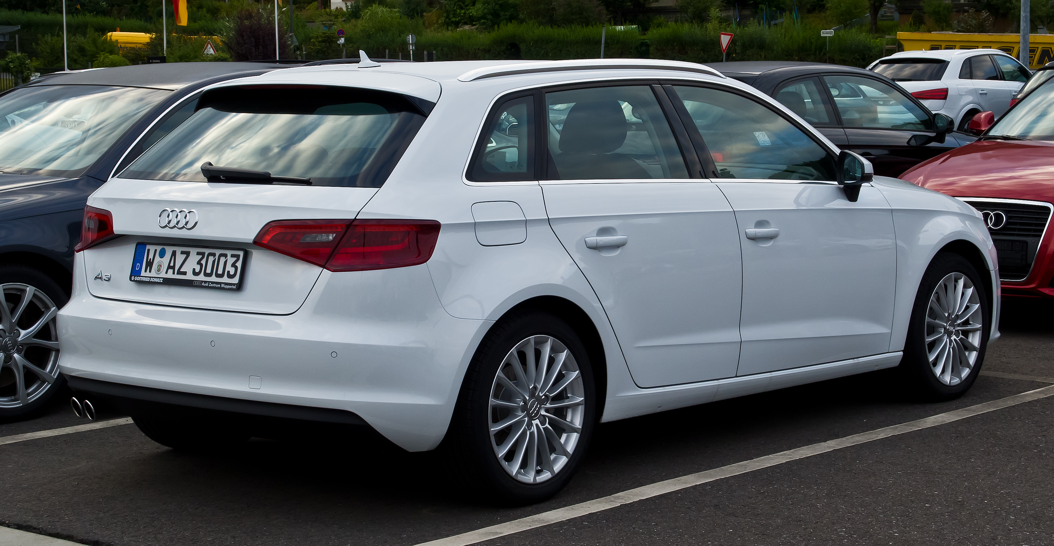 Audi A3 Sportback 1.4 TFSI Ambition (8V)